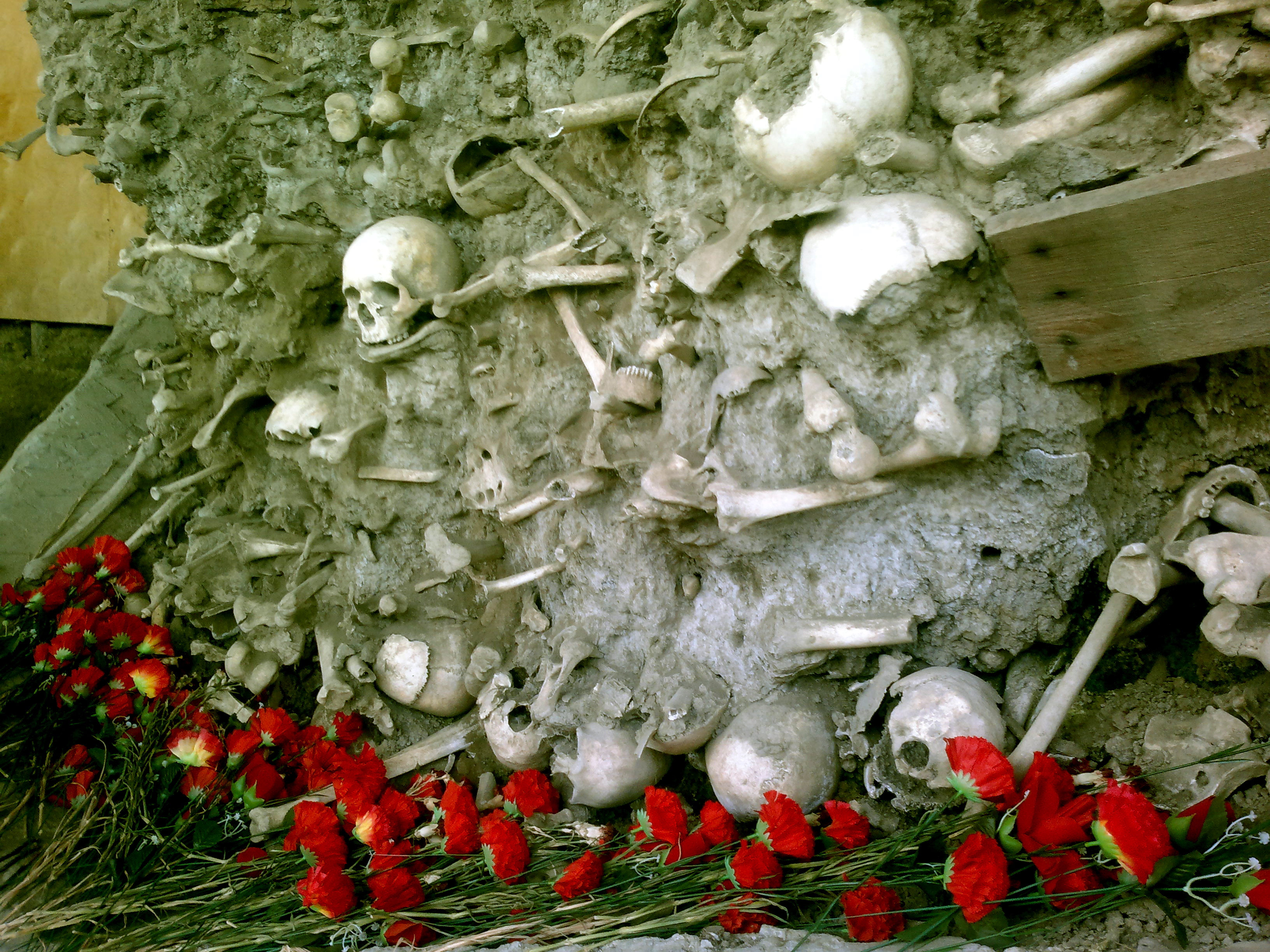 Bones and skulls in Guba mass grave.